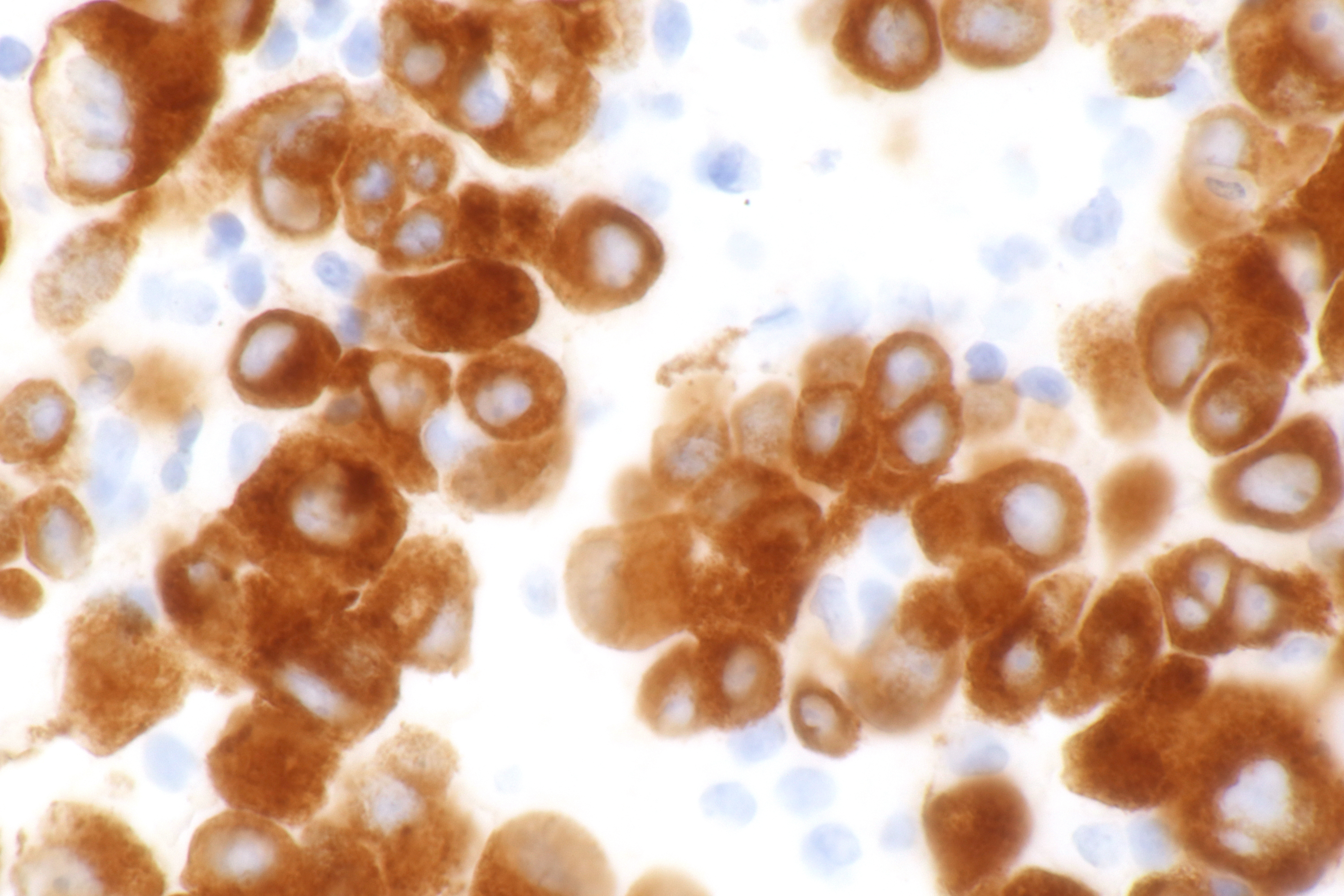 Micrograph showing a ROS1 positive adenocarcinoma of the lung. H&E stain/ROS1/TTF-1/napsin A. Related images